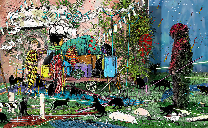 Catcher, 2016, 80 x 130 cm